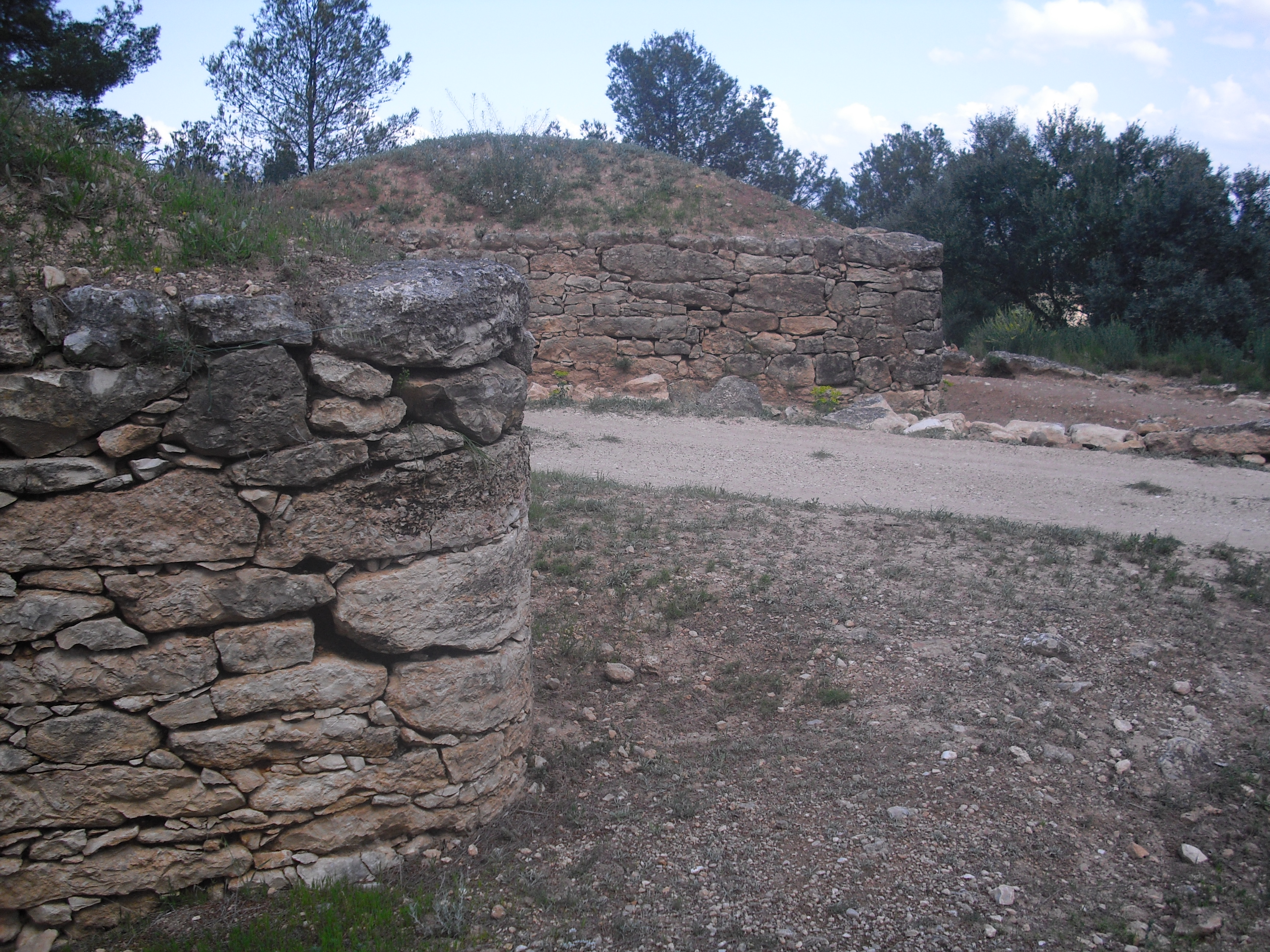 Iberian village of the Castellet de Banyoles (Tivissa, Catalonia, Spain)